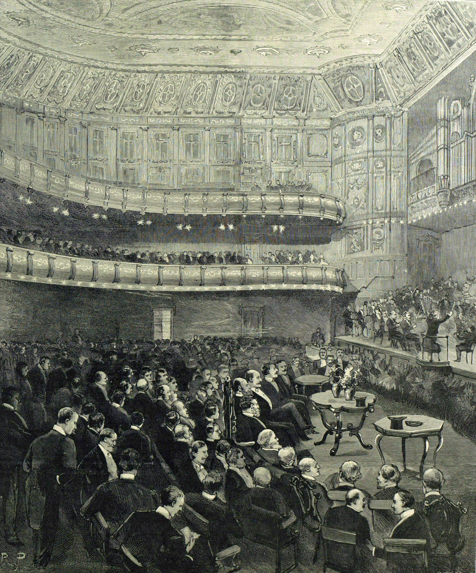 Interior of the Queen's Hall, London, scanned from "The First Concert at the New Queen's Hall, Langham Place, in the Presence of the Prince of Wales, Duke Alfred of Saxe-Coburg, and the Duke of Connaught" Illustrated London News 2 December 1893, p. 689.